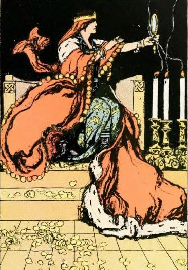 Illustrations from the 1913 play Snow White and the Seven Dwarfs